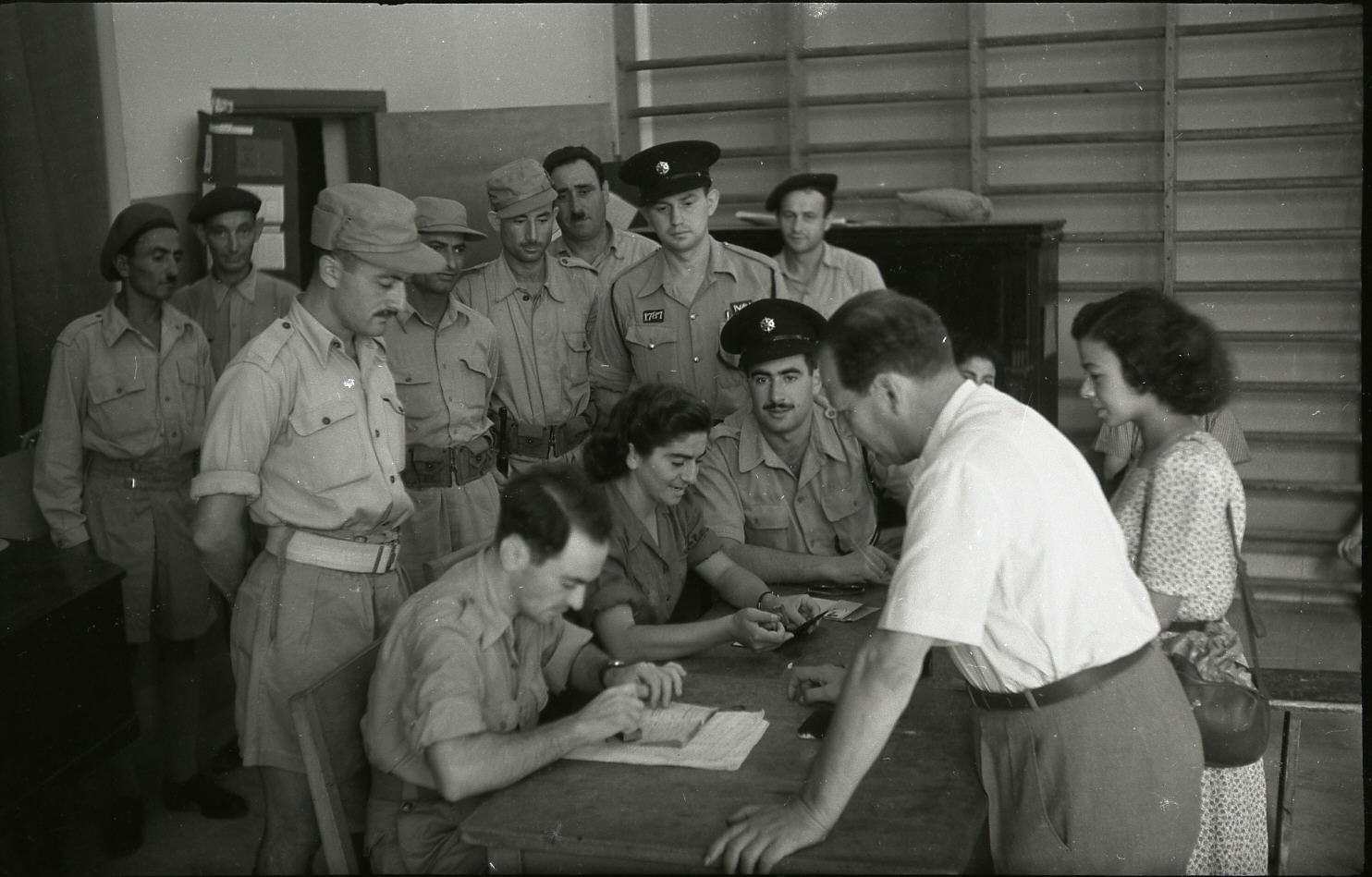 Read more responsiveness to join the war effort in Tel - Aviv. Was claimed that residents of Tel Aviv managers ordinary life, when other citizens are fighting for the homeland